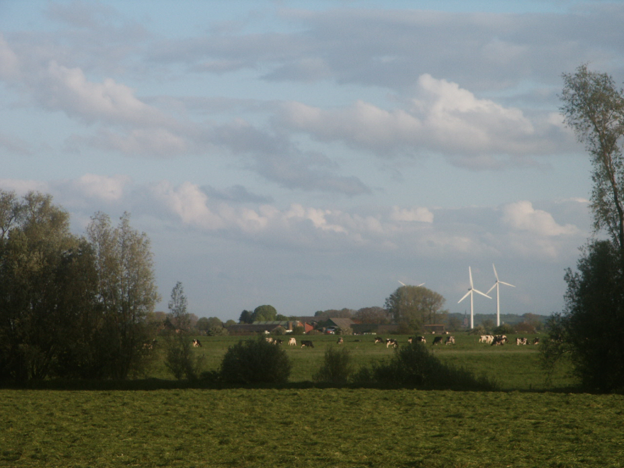 Landscape Germany Niederrhein 2012